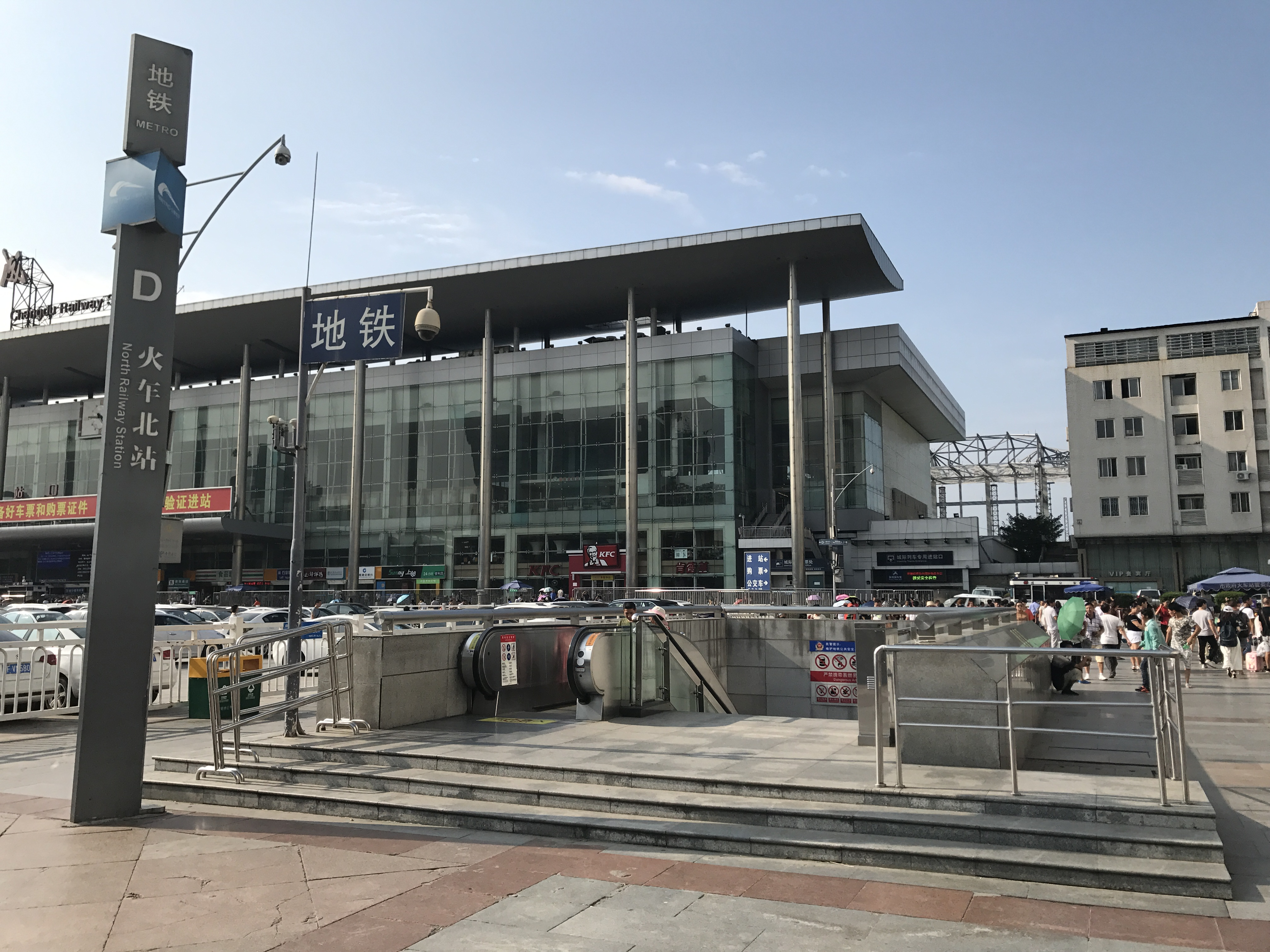 Entrance D of North Railway Station, Chengdu Metro